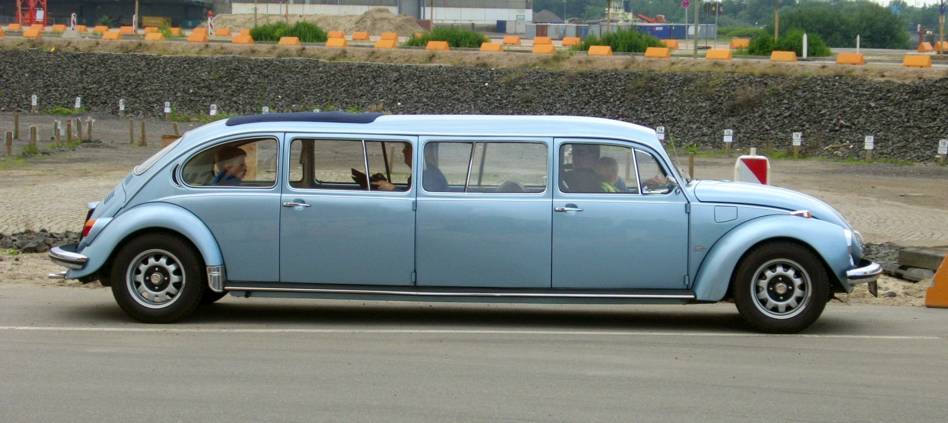 Volkswagen "Bug" stretch limousine, seen in Hamburg 2011